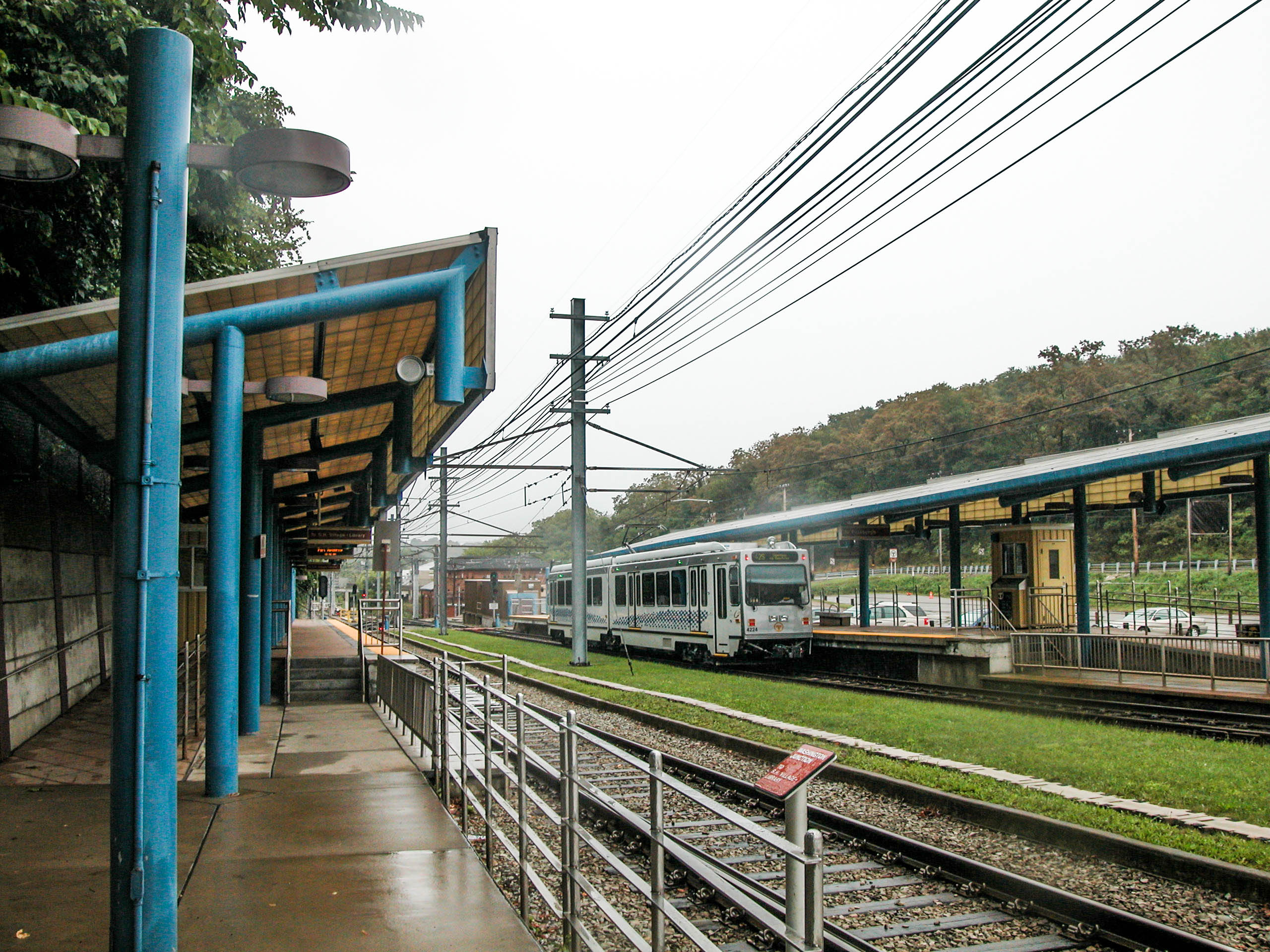 20060902 07 PAT Light Rail, Washington Jct